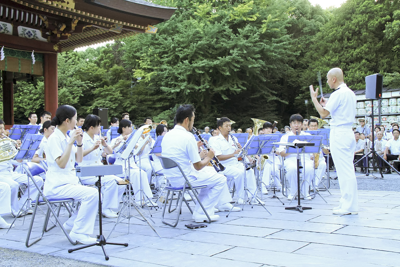 JMSDF Yokosuka band performing at Tsurugaoka Hachiman-gū. Canon EOS 7D